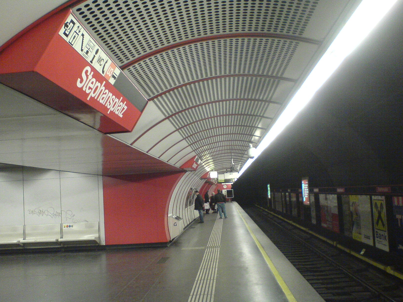 Platforms and the tubes of the U1 at the Vienna Stephansplatz Underground Station